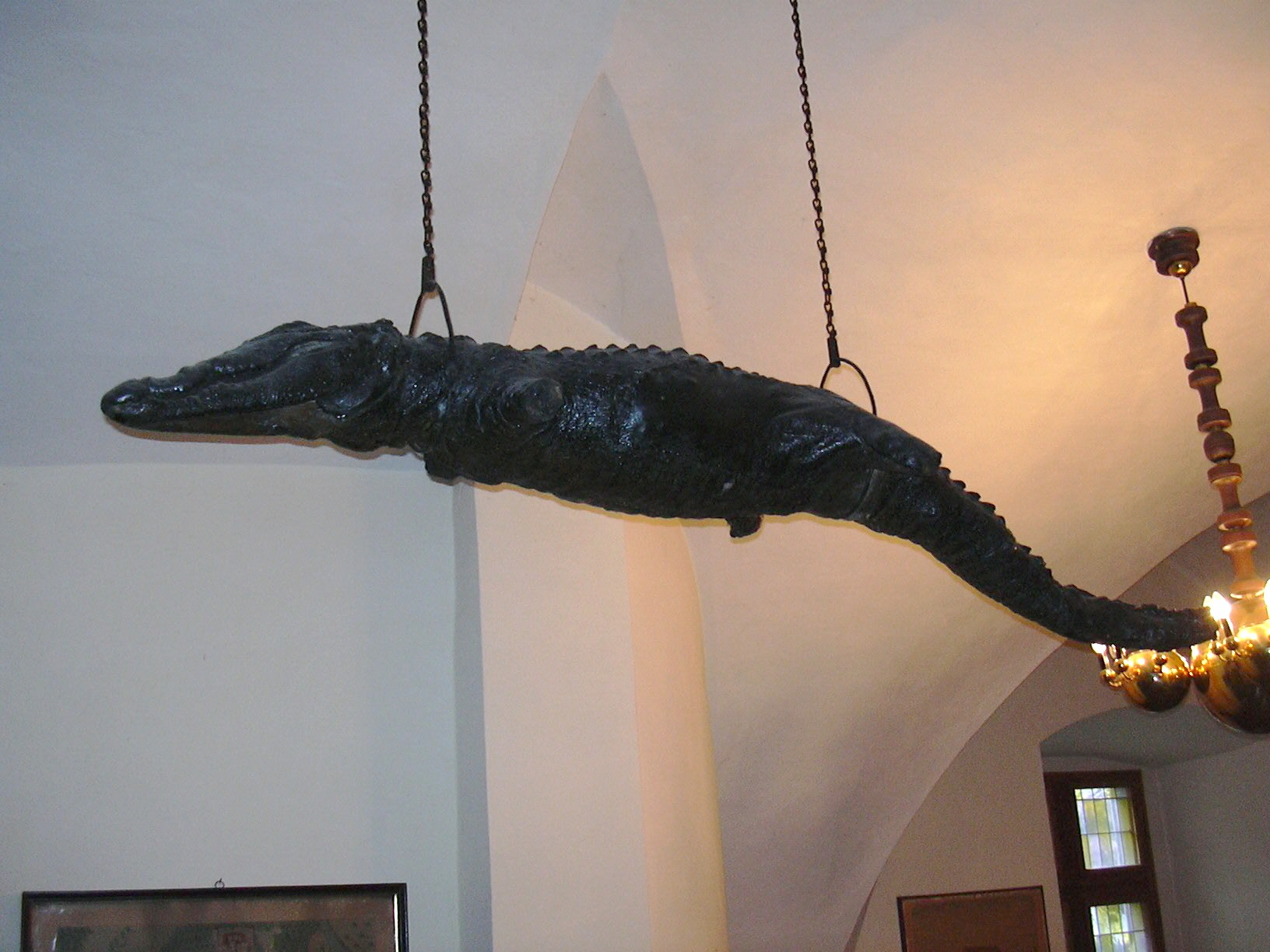 A crocodile at the Budyně Castle. 30. listopadu vyfotografoval Miraceti